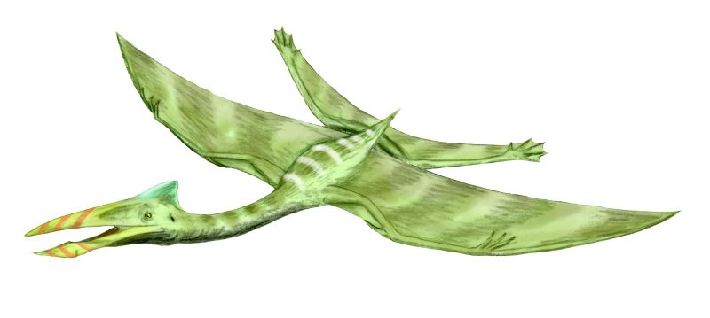 Bakonydraco galaczi, an azhdarchid pterosaur from the Upper Cretaceous of Hungary, after A. Osi et al., 2005, pencil drawing, digital coloring